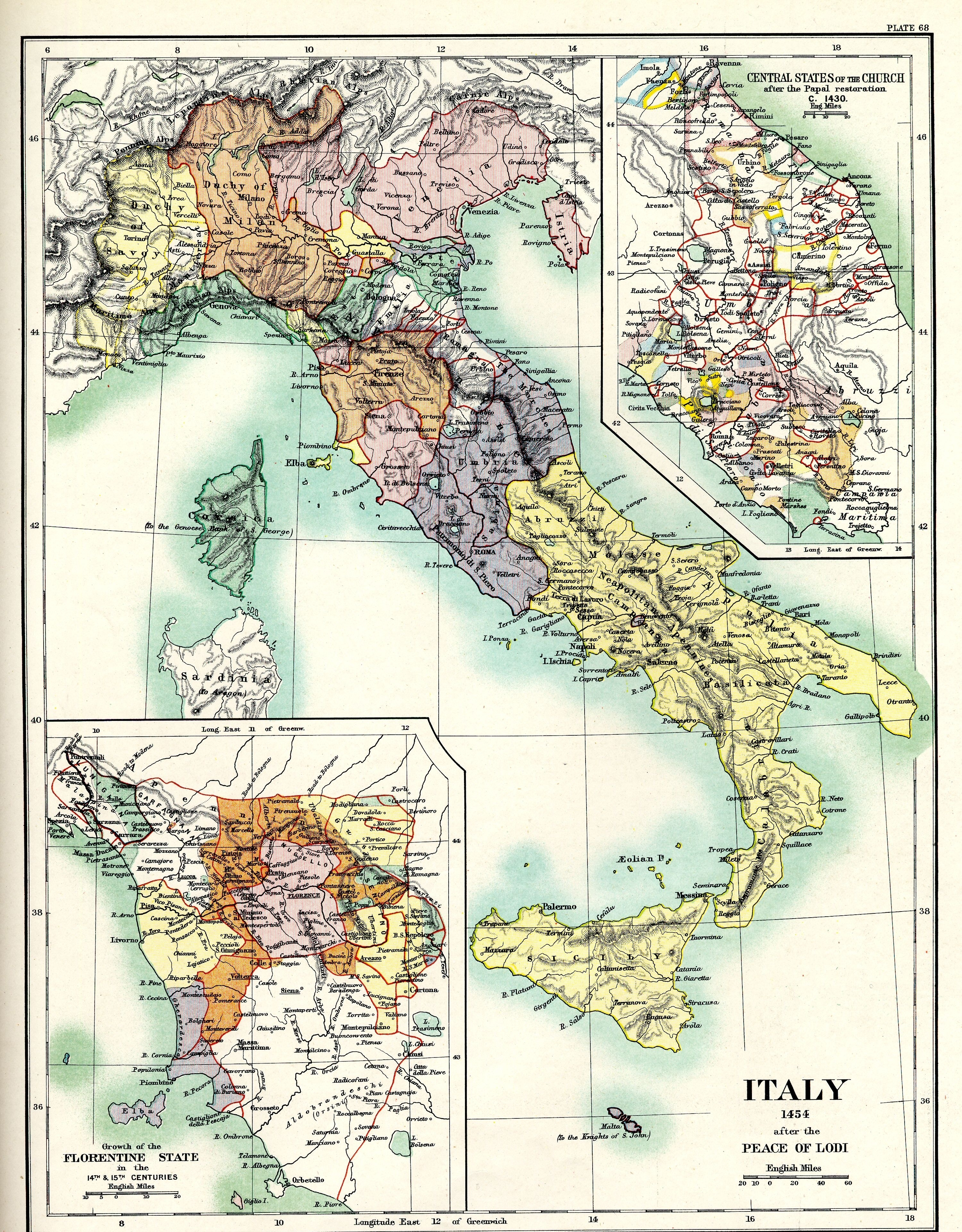 "Italy 1454 after the Peace of Lodi", Plate 68 from Reginald Lane Poole's Historical Atlas of Modern Europe. Inset maps of the "Central States of the Church after the Papal restoration c. 1430" to the top right and the "Growth of the Florentine State in the 14th & 15th Centuries" to the bottom left. Additional information on the Florentine map: In this map the boundaries of the Tuscan states in 1300 are distinguished by scarlet borders. The Florentine State in 1300 is colored pink. Additions to it made before 1377 are in brown, but such of these as were lost before 1377 have only a brown border. Later additions made before 1433 are colored yellow; further additions made before 1494, green. Territory "raccomodato" to Florence but never under complete subjection is colored violet, while territory "raccomodato" to Florence and lost again before 1500 has only a violet border.